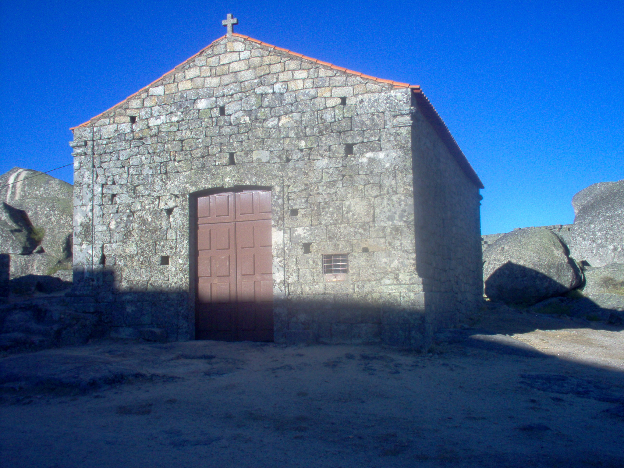 Chappel in the Castle of Monsanto, district of Castelo Branco